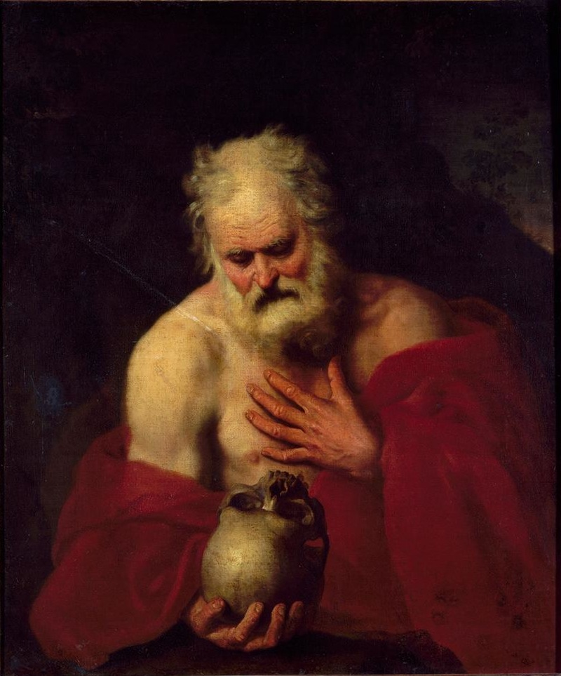 Saint Jerome